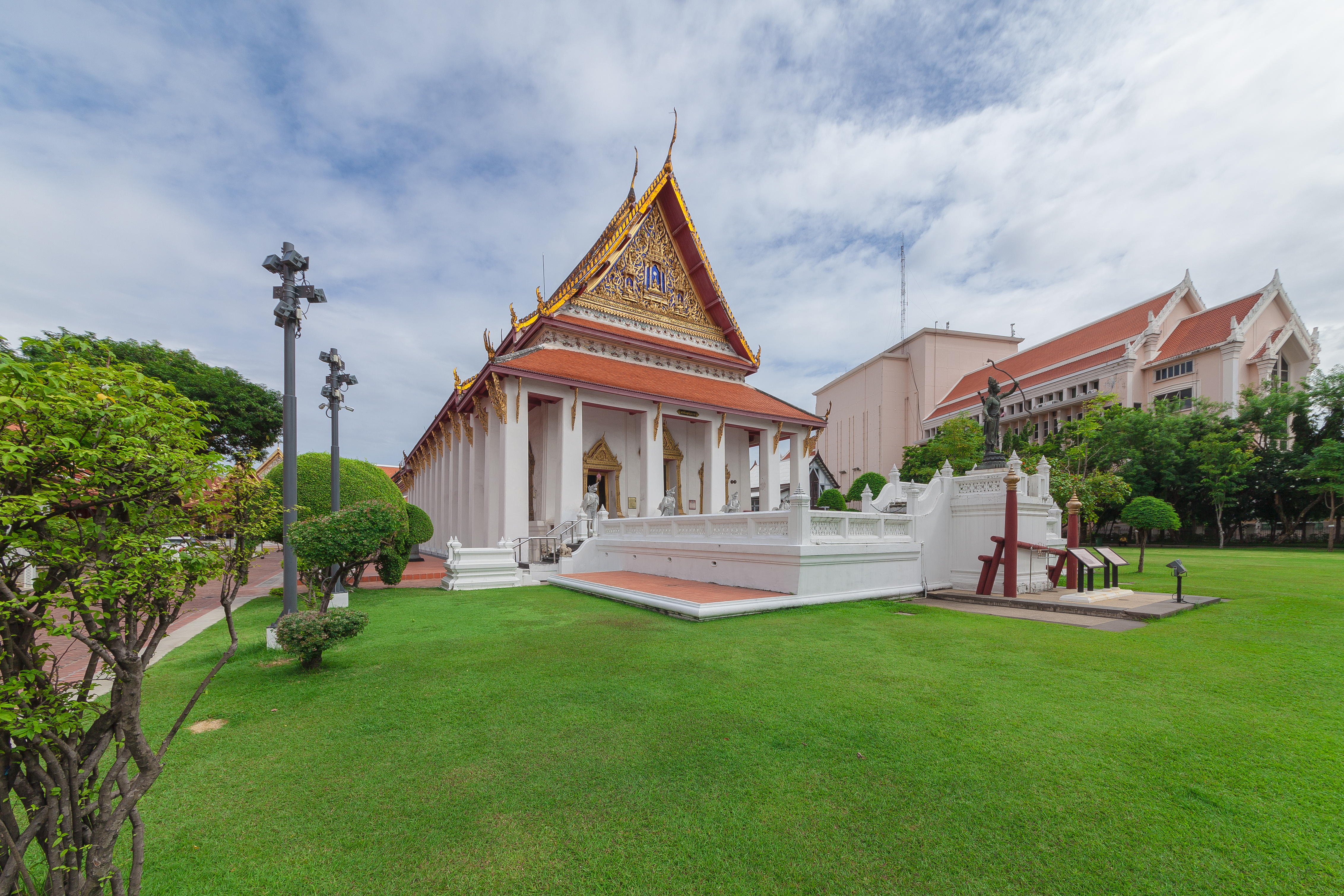 Phutthaisawan Hall in Bangkok National Museum.